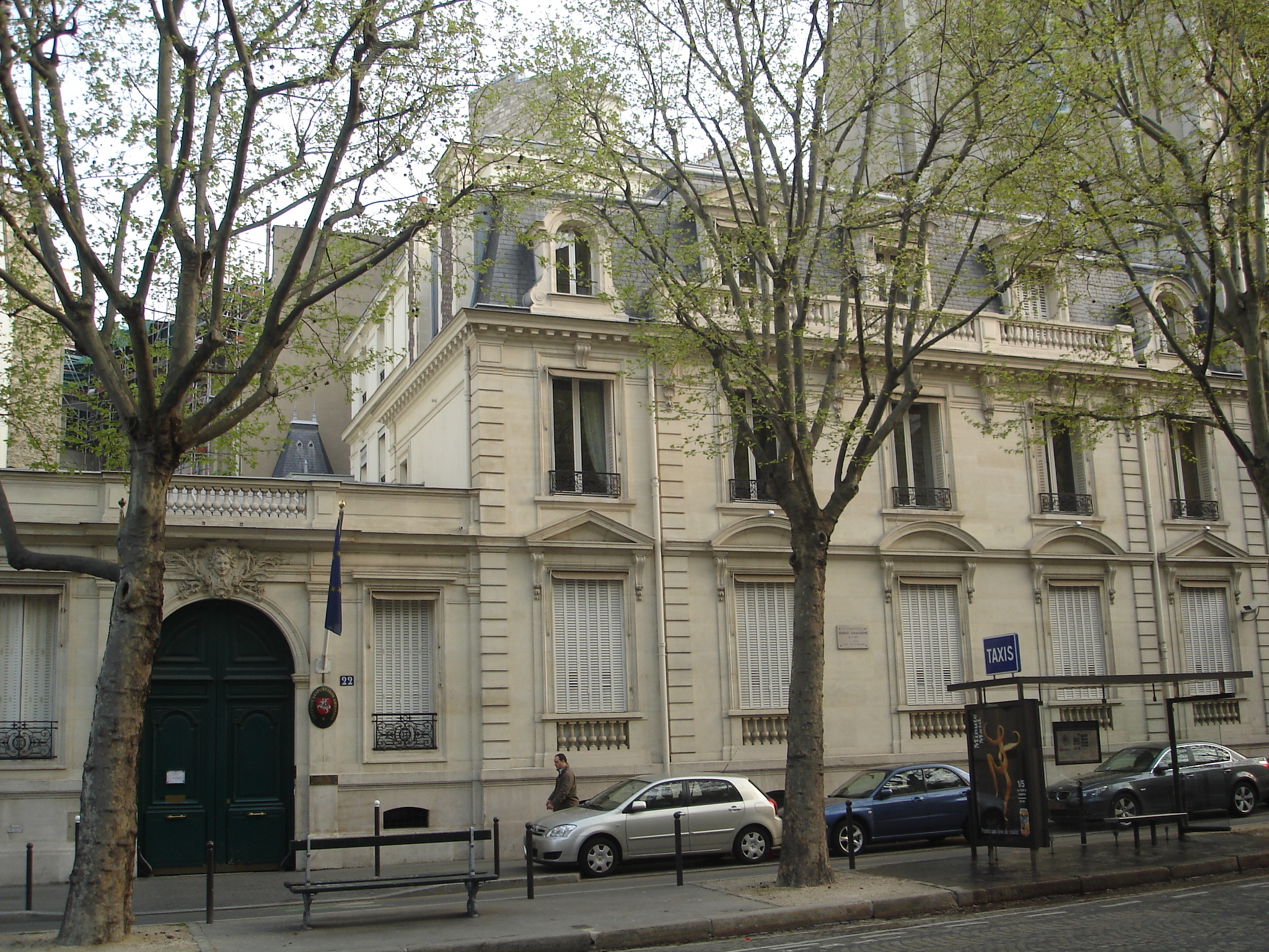 22 boulevard de Courcelles (Paris 17eme). Mansion house, now the ambassy of Lithuania